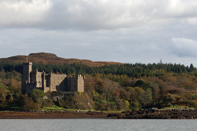 Dunvegan Castle Seen from one of the seal boats in Loch Dunvegan.